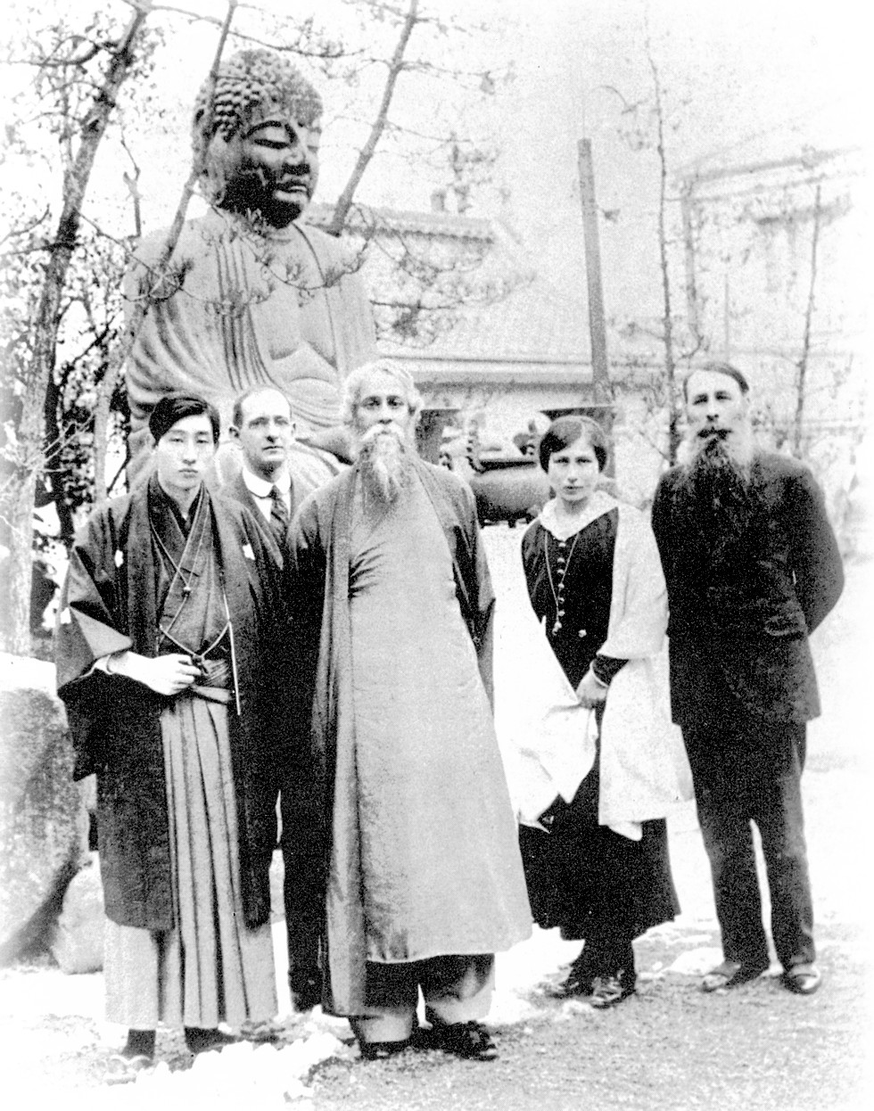 Rabindranath Tagore With the Mother (Mirra Alfassa, spiritual collaborator of Sri Aurobindo) and Paul Richard in Japan in June 1916.